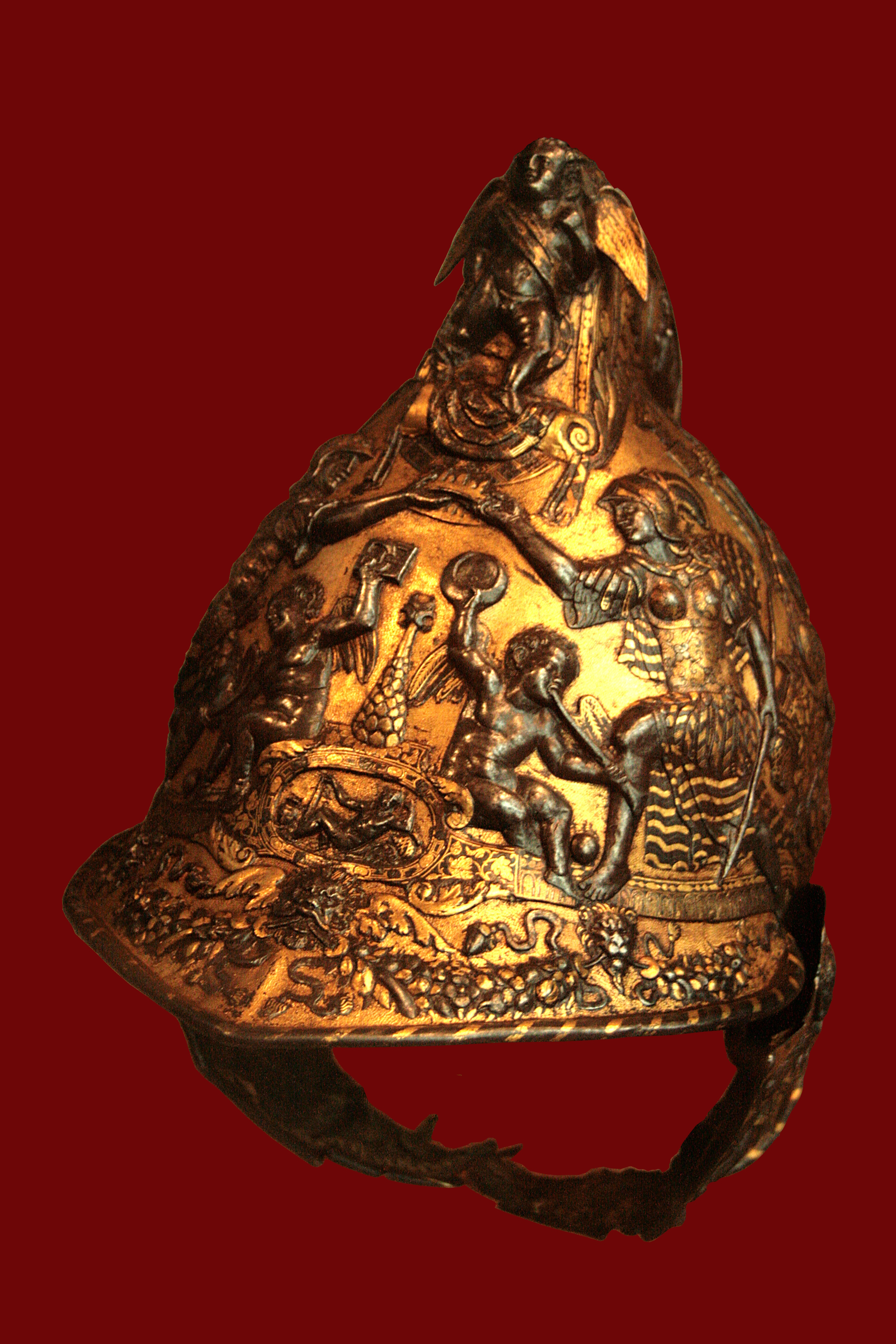 Burgonet of King Henry II in engraved, repelled, damascened, silvered and gilded steel. Piece probably made in Italy in the 16th century and kept in the Army Museum of the Hôtel de Invalides in Paris.